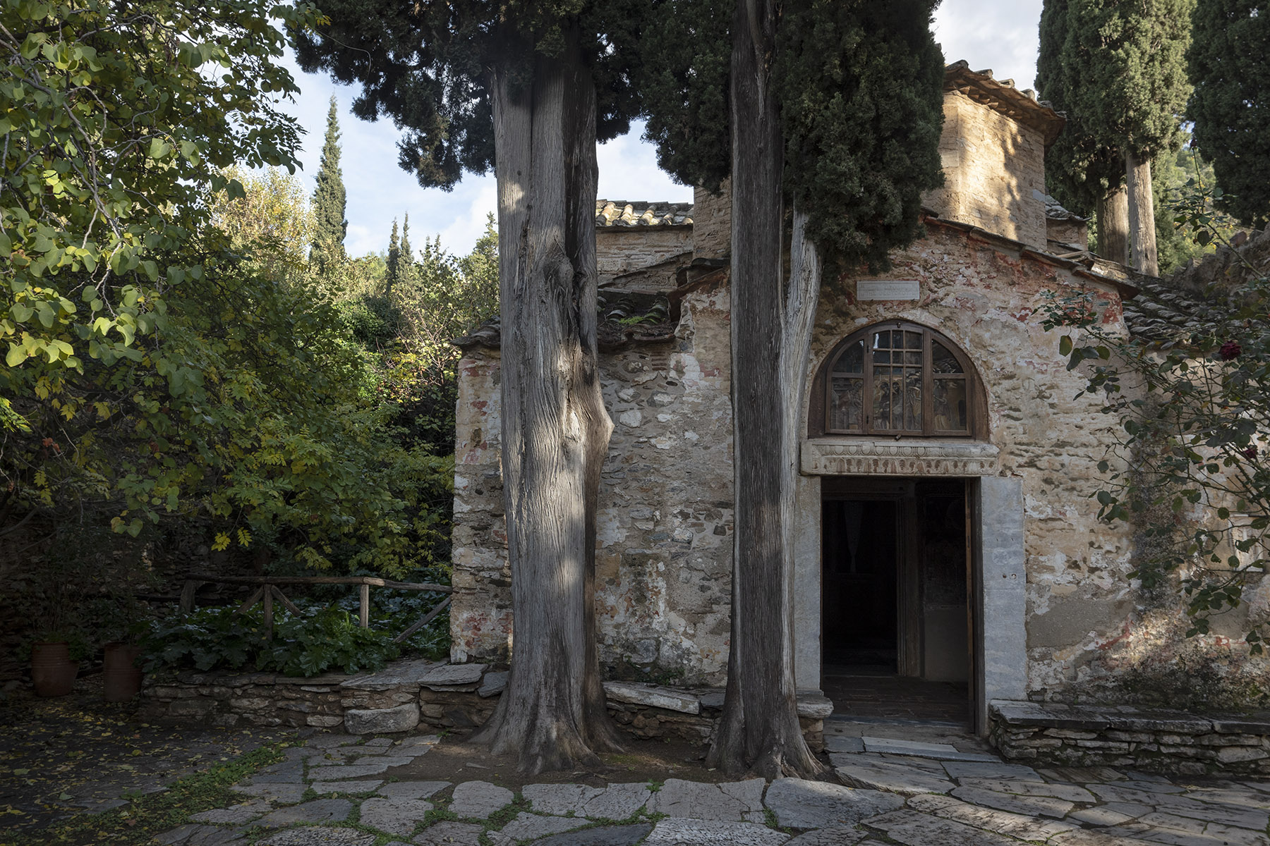 Kaisariani Monastery Athens, entrance of churchl, December 13, 2019